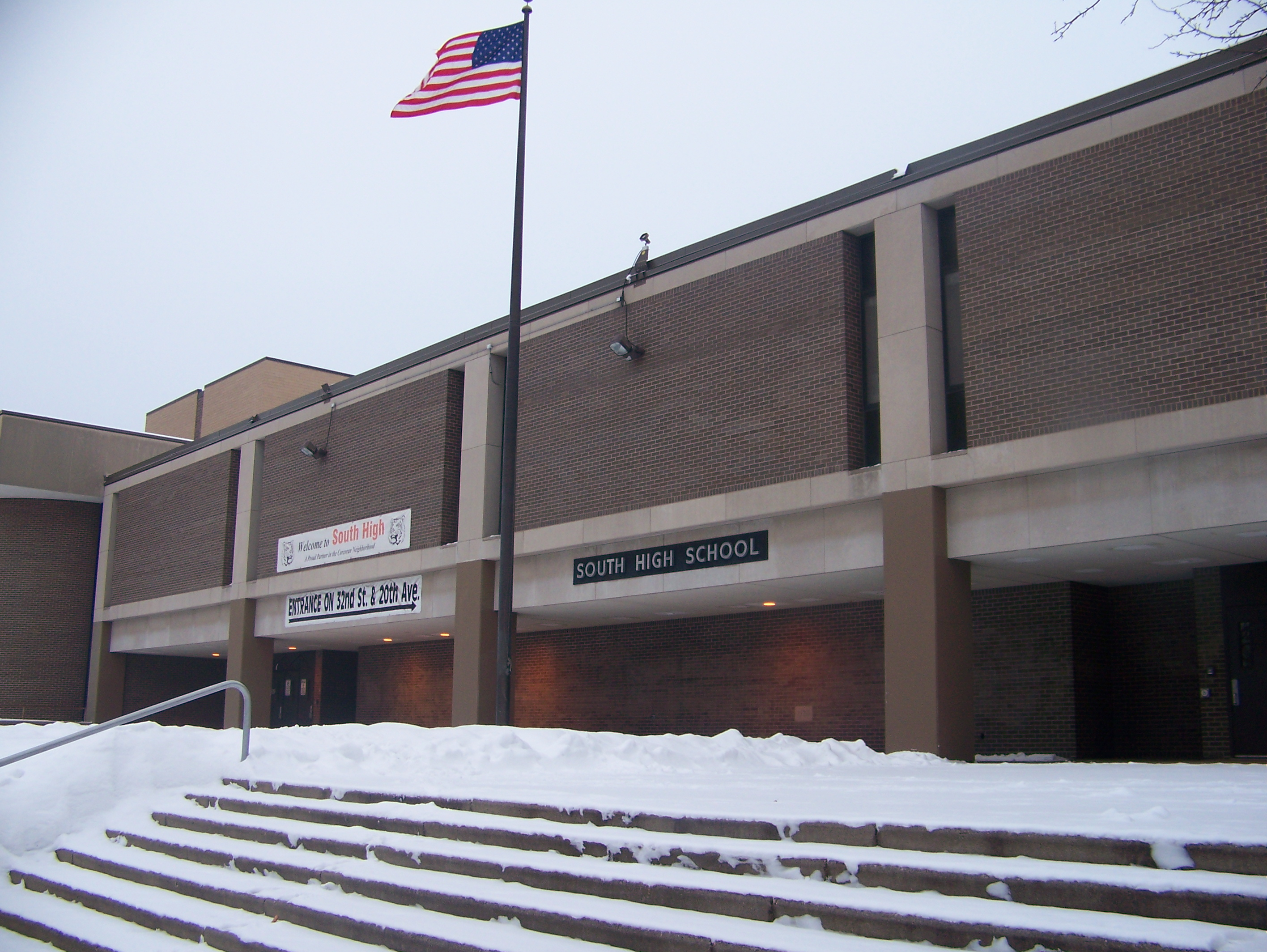 The front doors of Minneapolis South High School.